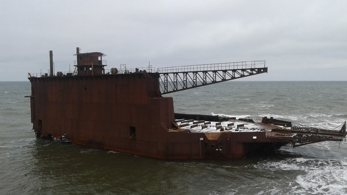 Duke of Connaught, front part of the floating dock. 2016. Îles-de-la-Madeleine, Quebec, Canada.